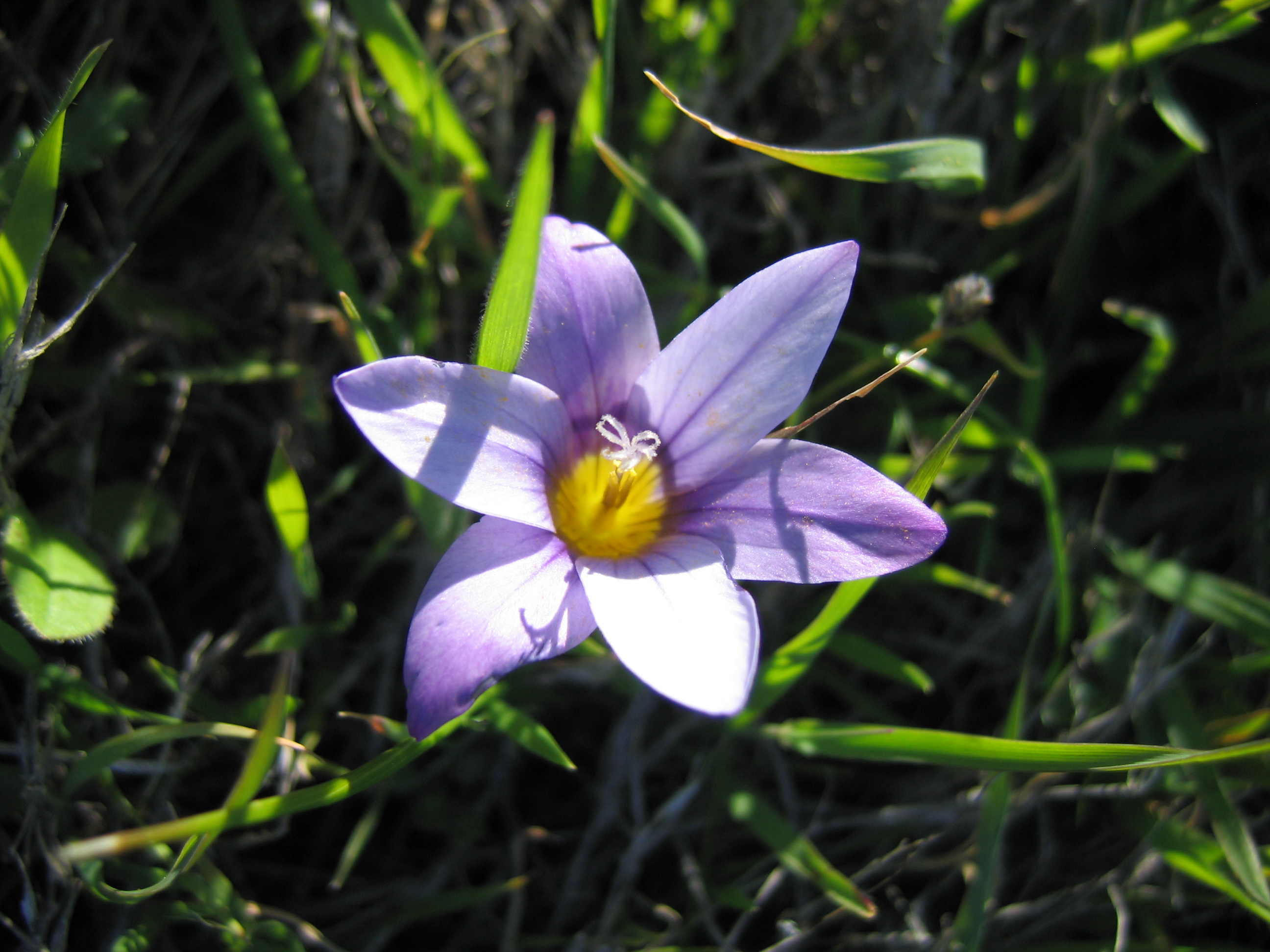 Romulea grandiscapa (Webb) Gay ex Baker, Iridaceae, near Gerain, Gomera, Canary Islands, ca. 800 m